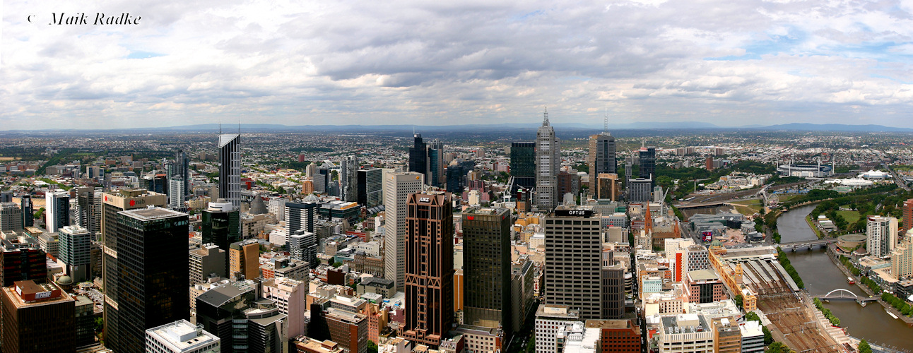 Melbourne